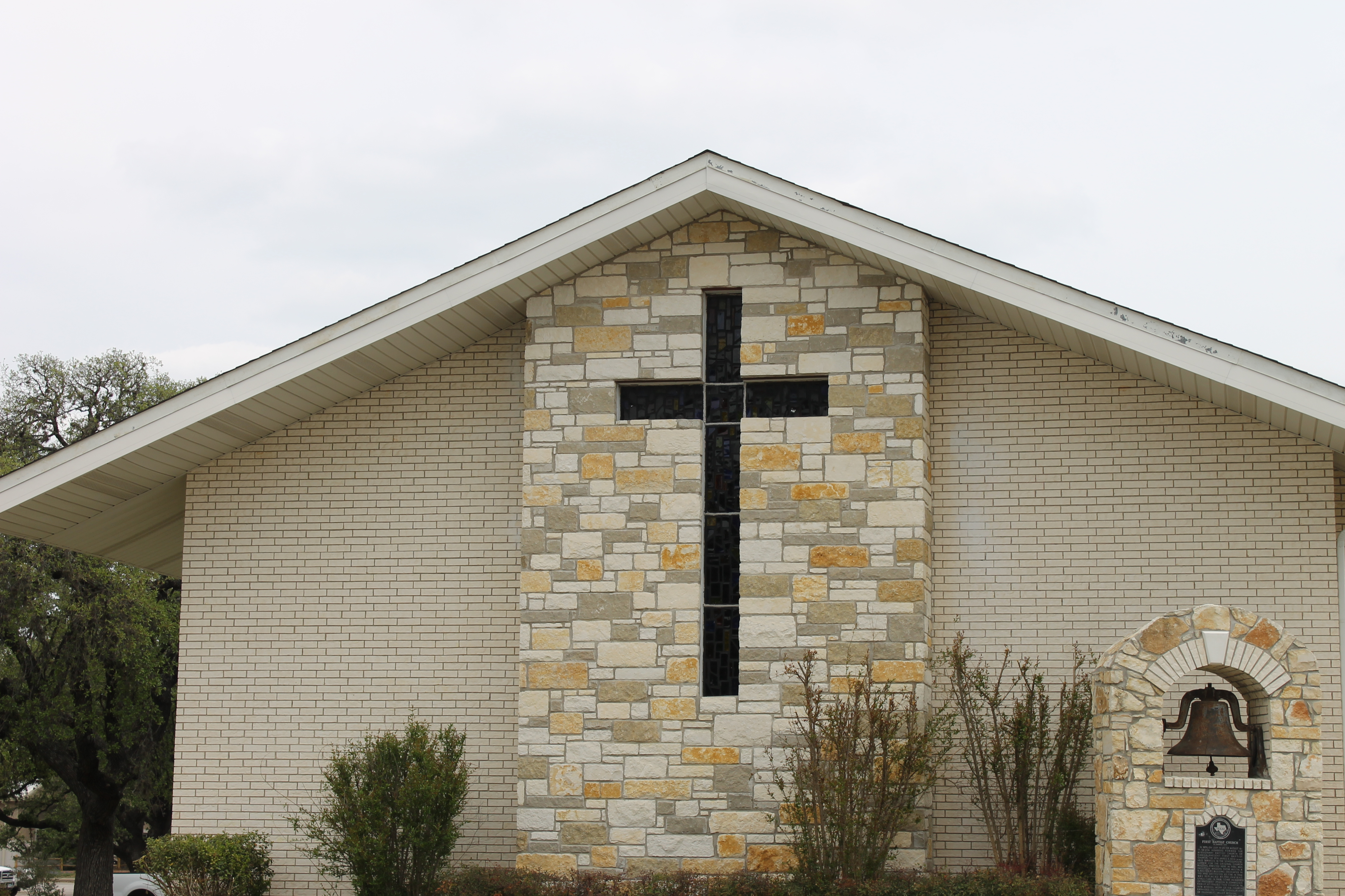 I took photo with Canon camera of First Baptist Church in Johnson City, TX.